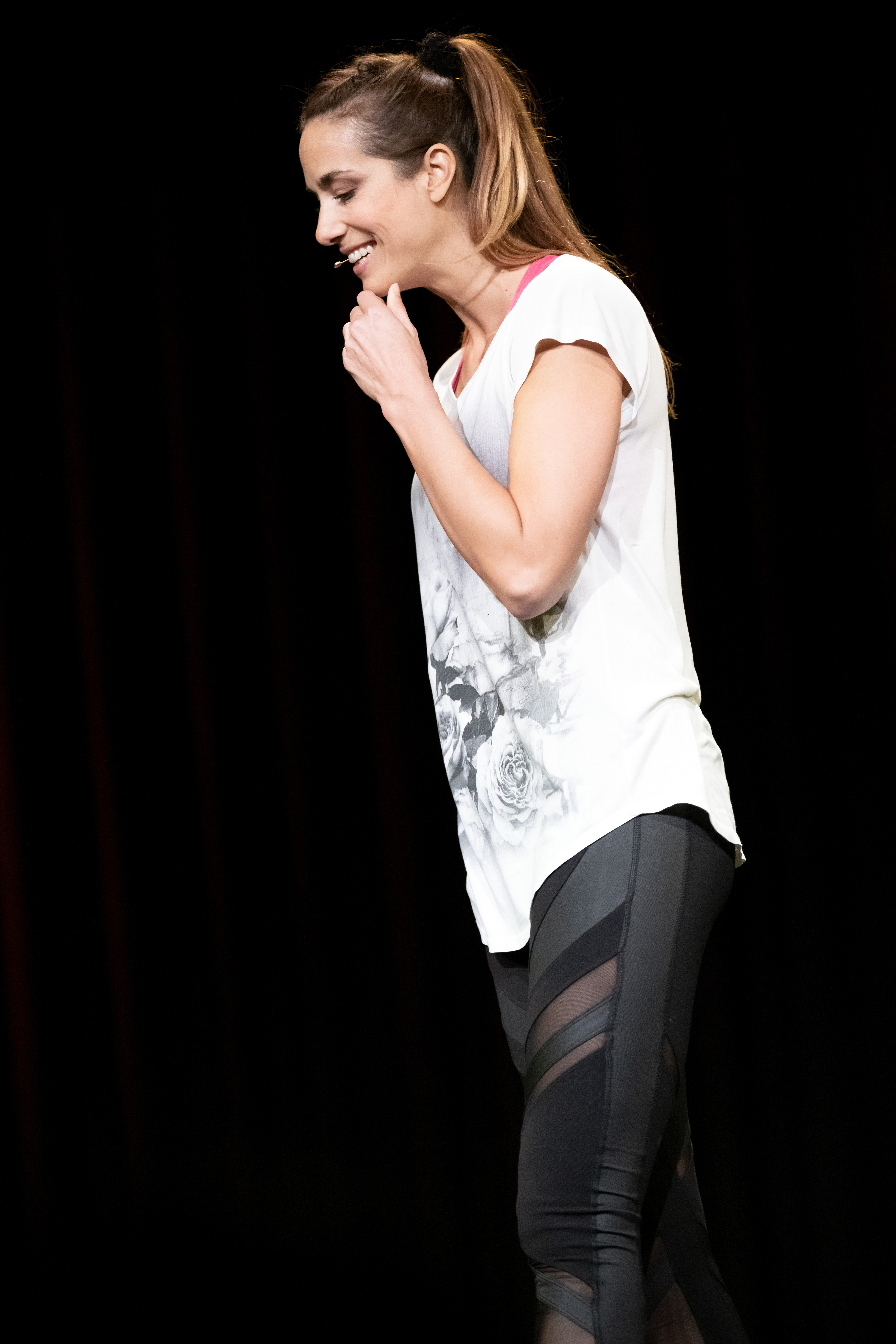 Nina Hartmann, premiere of her fourth solo comedy program Laut (en: Loud) at Orpheum in Vienna, Austria.